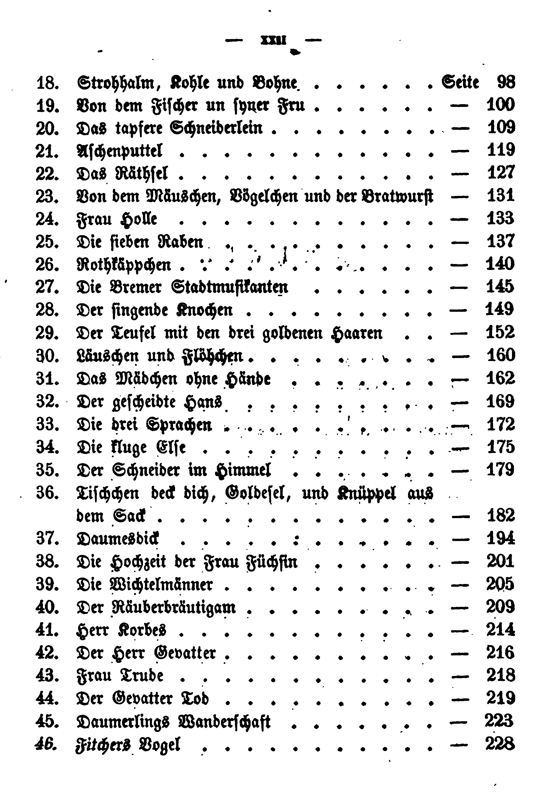 This is a scan of the historical document